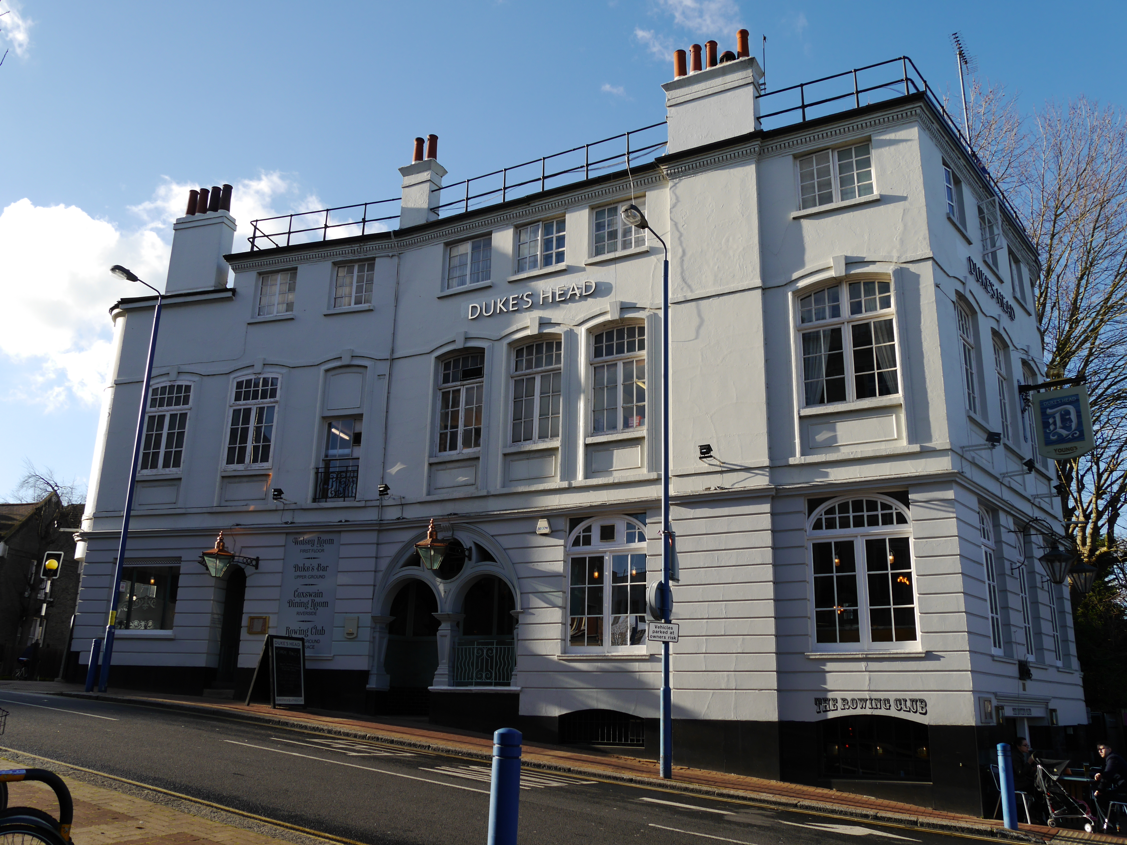 Duke's Head, Putney